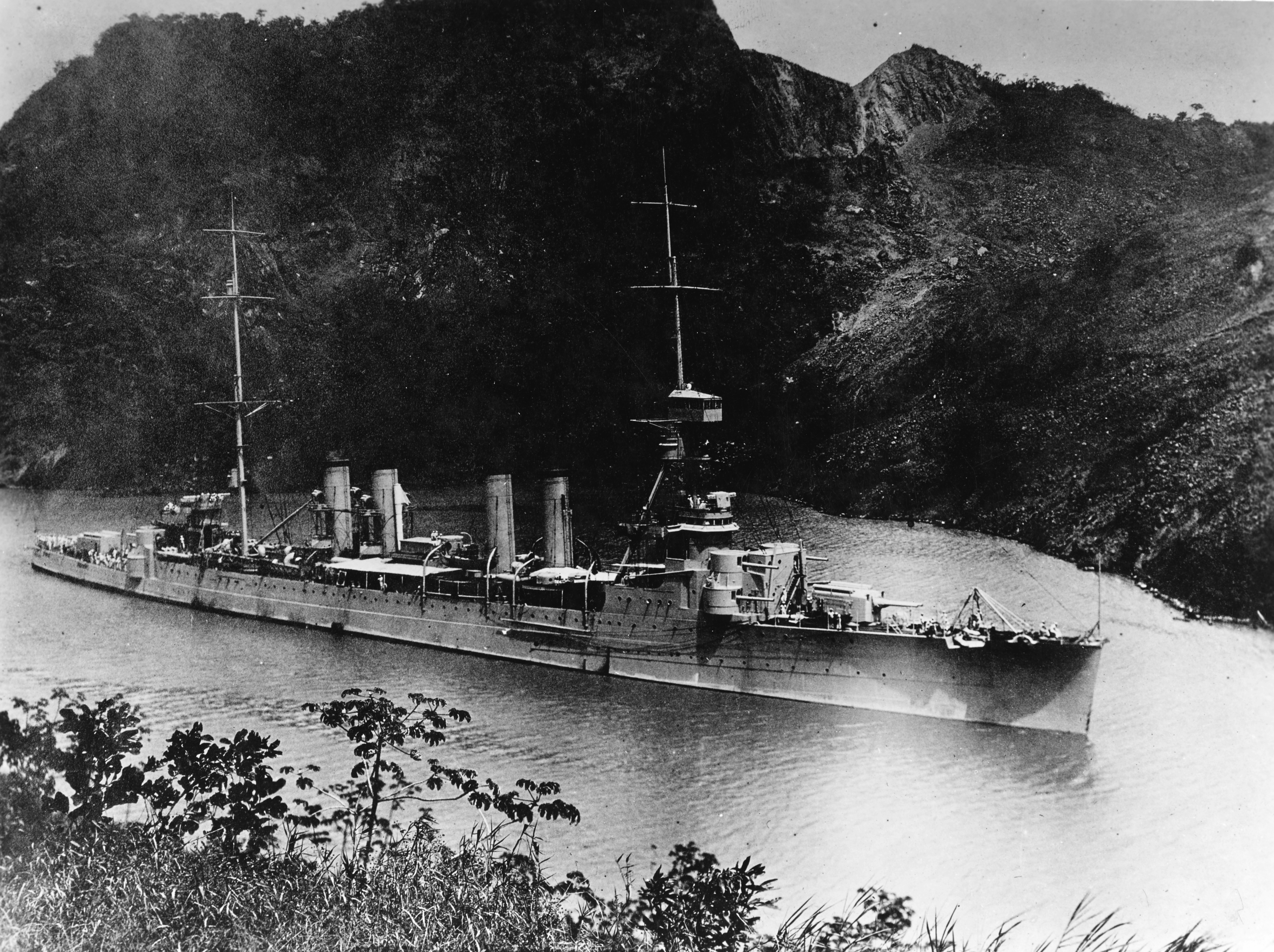 The U.S. Navy light cruiser USS Richmond (CL-9) in the Gaillard cut, Panama Canal, 18-19 February 1925.